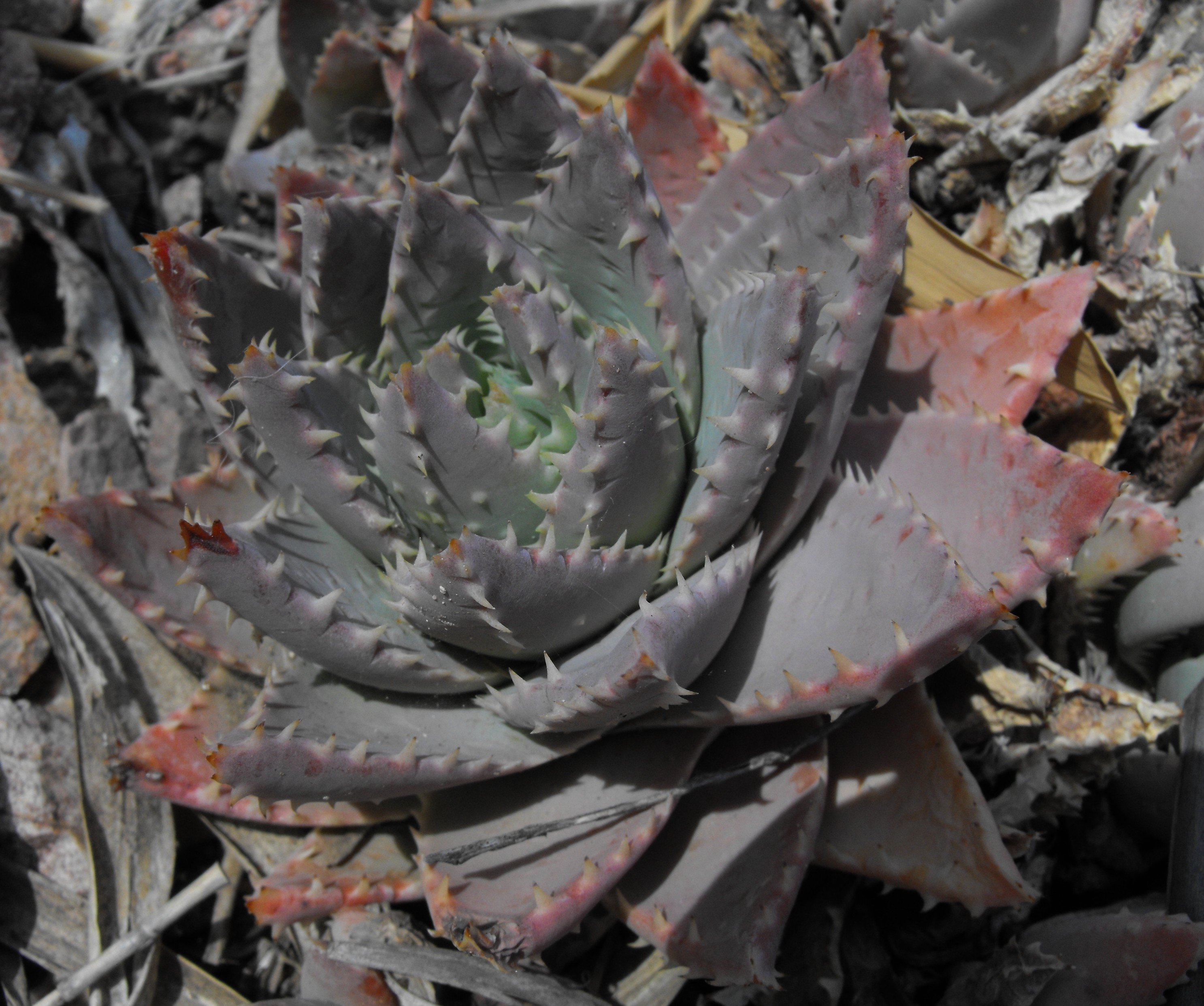 Aloe brevifolia at Quail Botanical Gardens in Encinitas, California, USA.